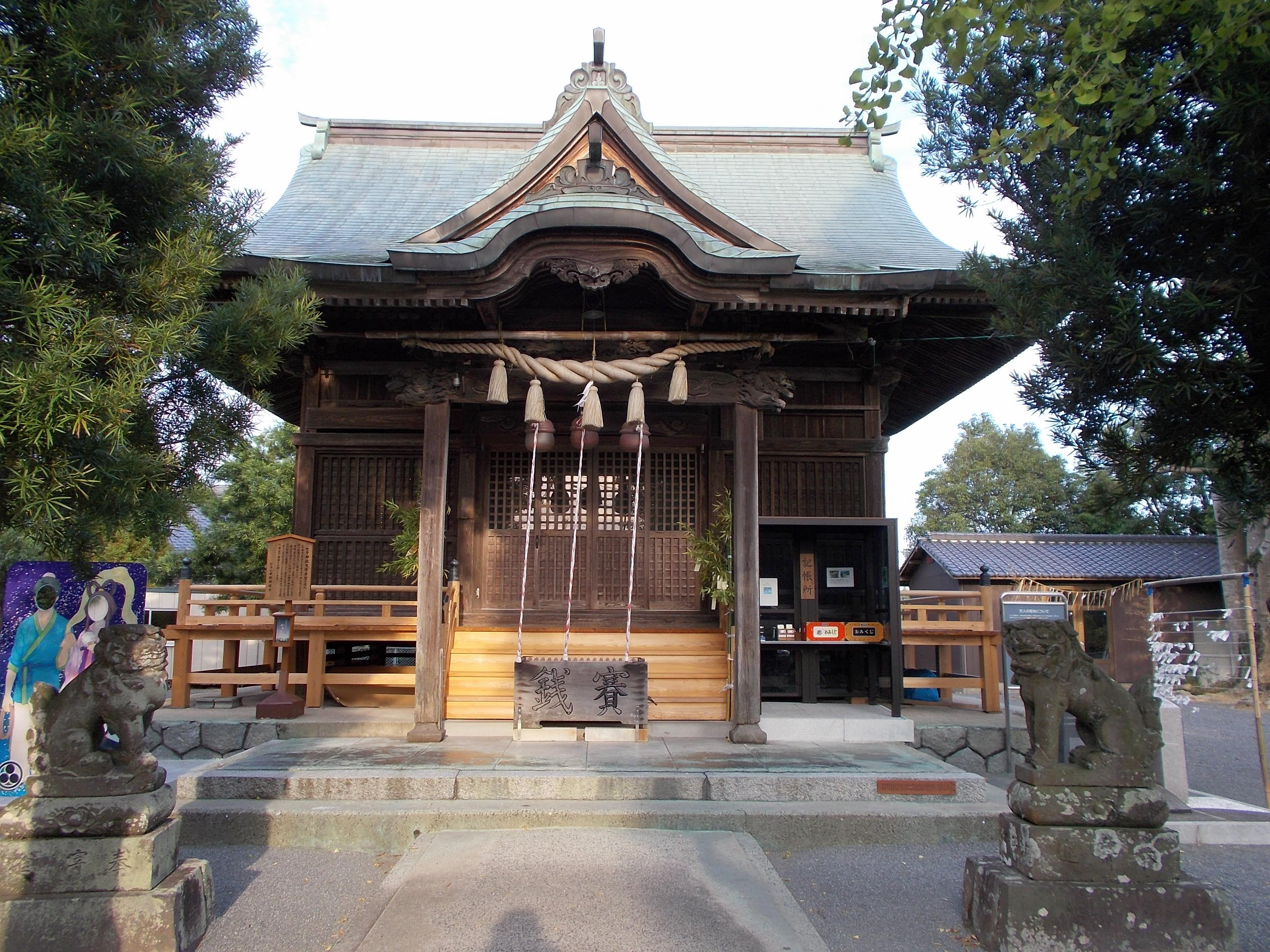 Tanabata-jinja, Ogori, Fukuoka, Japan